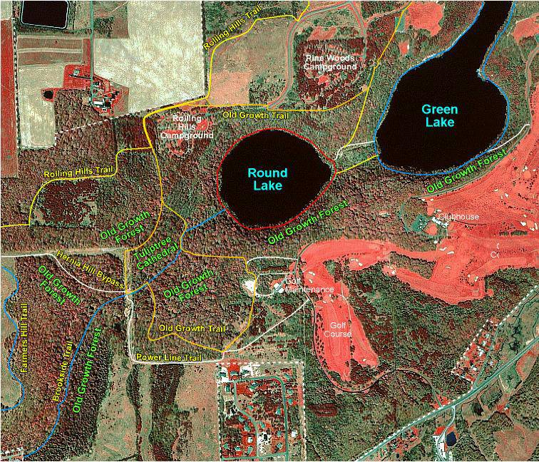 Image was obtained from the web-site of "TERRA: The Earth Restoration and Renewal Alliance." It combines public domain false-color satellite photography of Green Lakes State Park (obtainable at with an overlay of text and trail lines. The source is: Aerial Photo. New York Old Growth Forest Association (August 13, 2002). Archived from the original on 2007-10-23. This image should be attributed to "TERRA: The Earth Restoration and Renewal Alliance." The copyright date is 2003. For details of the licensing authorization, please consult the talk page. This work is free and may be used by anyone for any purpose. If you wish to use this content, you do not need to request permission as long as you follow any licensing requirements mentioned on this page.